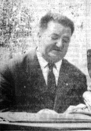 Anton Vidmar (1917-1999), Slovene partisan